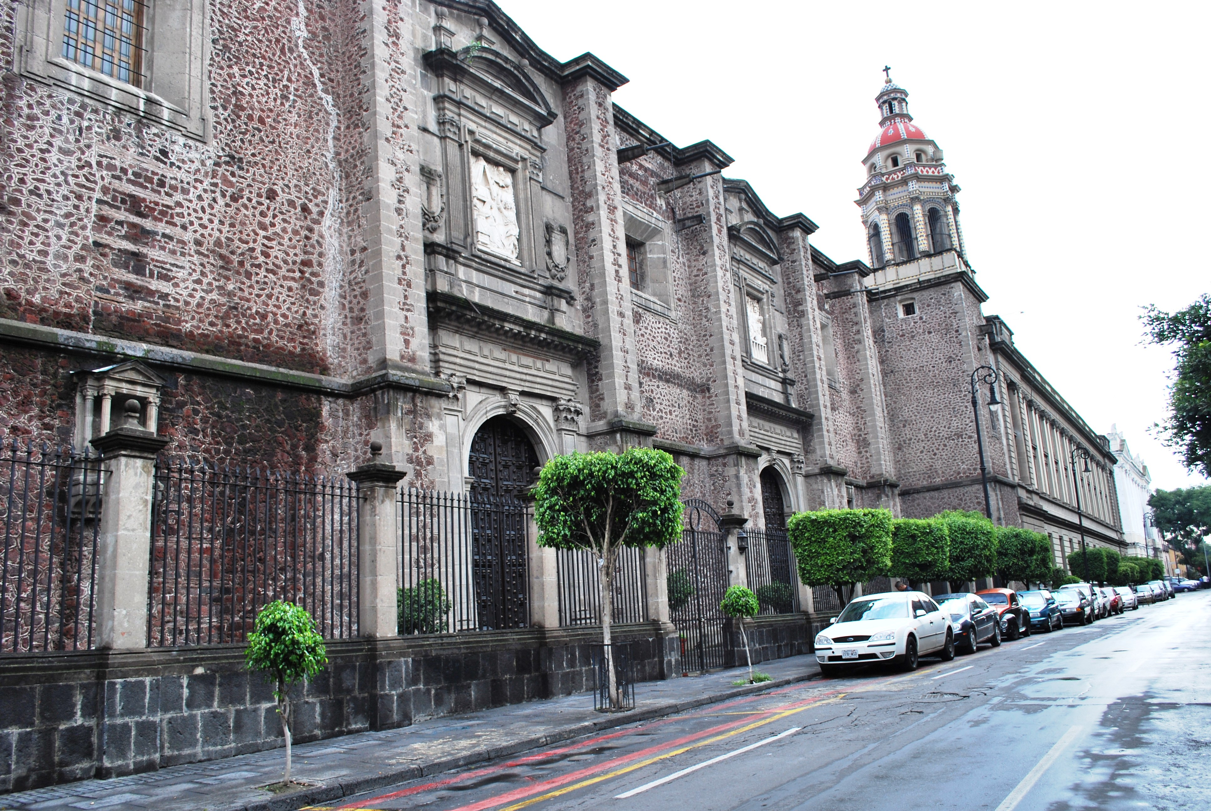 Secretariat of Public Education building, Luis Gonzalez Obregon Street facade as view from the old church of La Encarnación. In the historic center of Mexico City